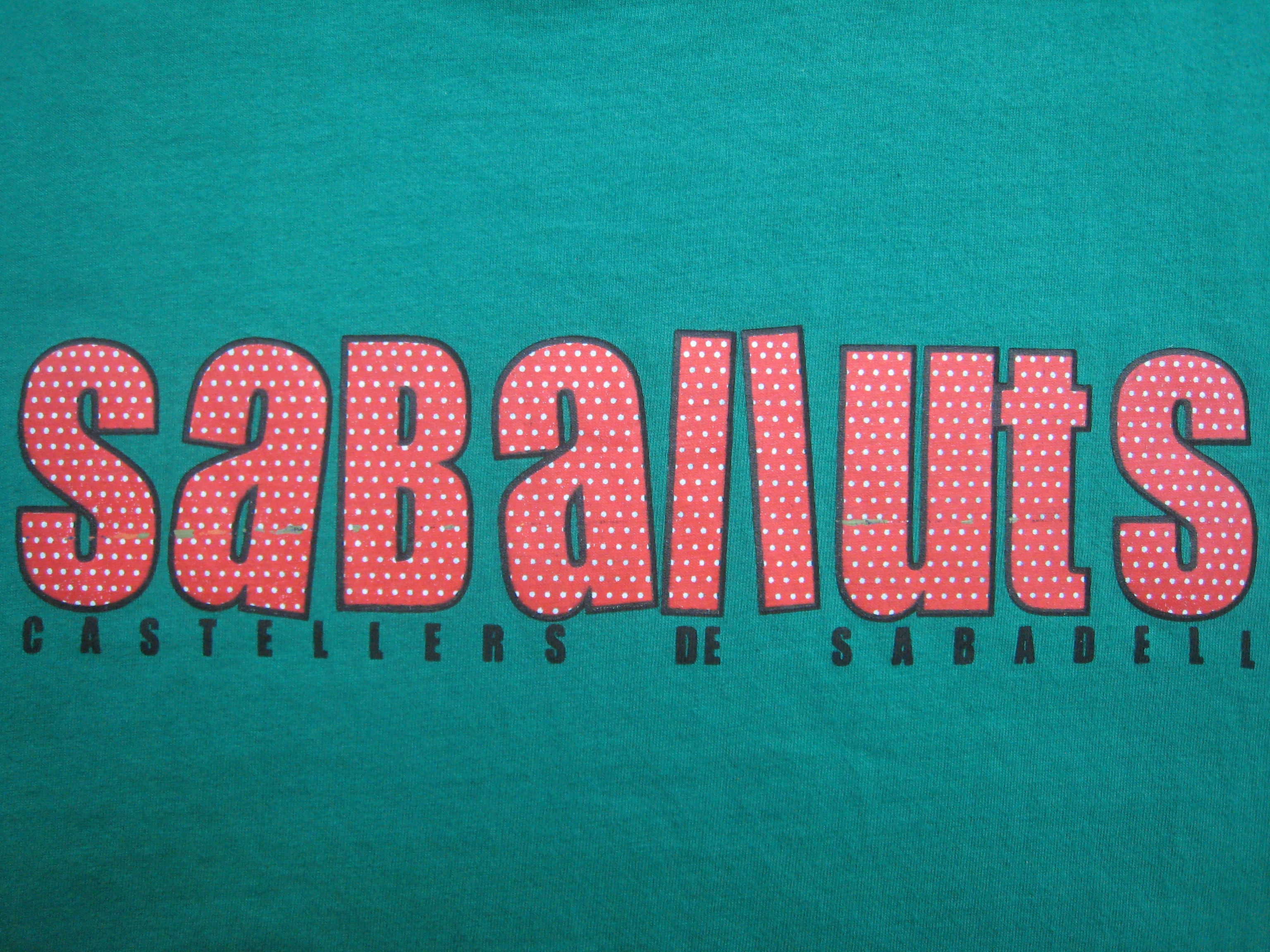 Castellers de Sabadell green T-shirt.